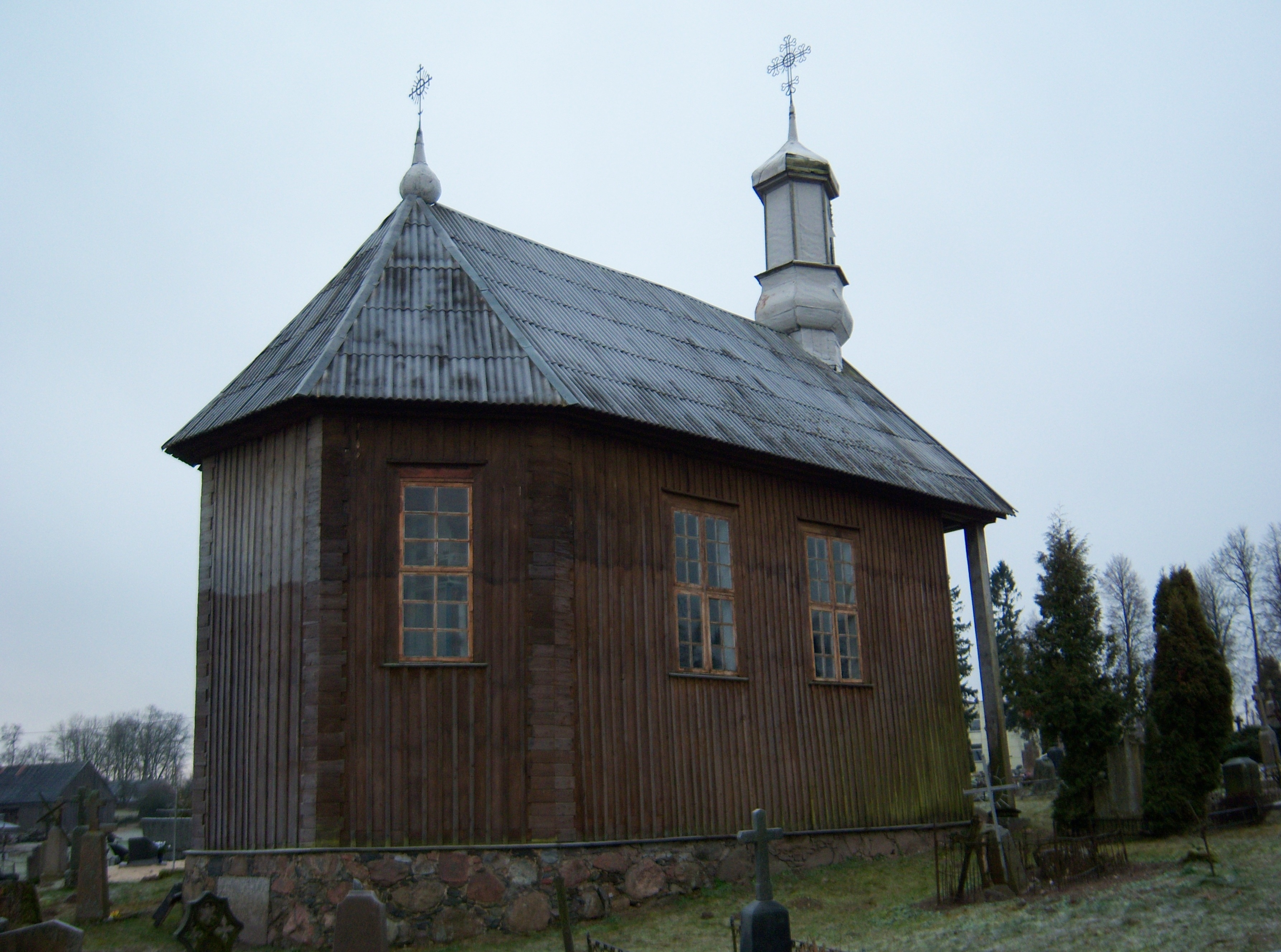 Lioliai Chapel, Kelmė District, Lithuania